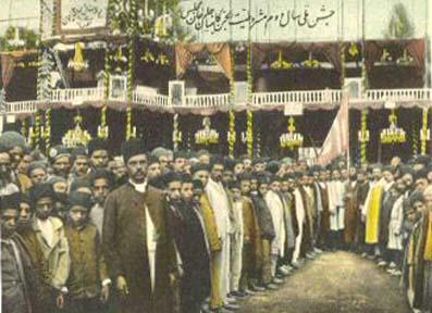 Photo is from early 1900s, Iranian media.